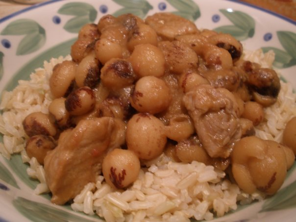 Voanjobory sy henakisoa, a traditional dish in Madagascar made of Bambara groundnut (groundpea, pea) cooked with pork. Lemurbaby (talk) 04:17, 5 November 2010 (UTC)